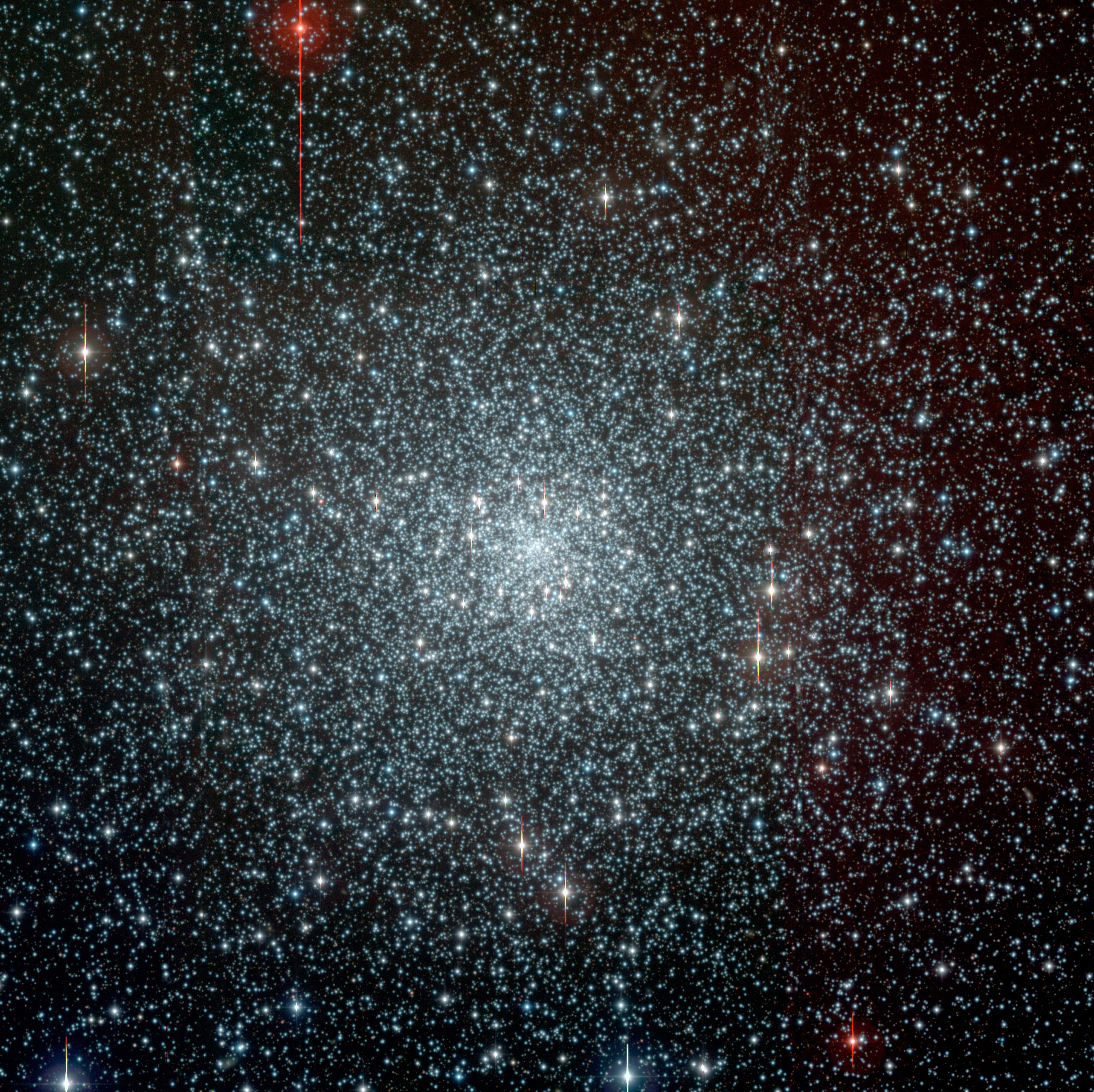 The globular cluster NGC 6397, located at a distance of approx. 7,200 light-years in the southern constellation Ara. It has undergone a "core collapse" and the central area is very dense. It contains about 400,000 stars and its age (based on evolutionary models) is 13,400 ± 800 million years. The photo is a composite of exposures in the B-, V- and I-bands obtained in the frame of the Pilot Stellar Survey with the Wide-Field-Imager (WFI) camera at the 2.2-m ESO/MPI telescope at the ESO La Silla Observatory. It was prepared and provided by the ESO Imaging Survey team. The spikes seen at some of the brighter stars are caused by the effect of overexposure (CCD "bleeding"). Colours & filters Band Telescope Optical B MPG/ESO 2.2-metre telescope WFI Optical V MPG/ESO 2.2-metre telescope WFI Optical I MPG/ESO 2.2-metre telescope WFI